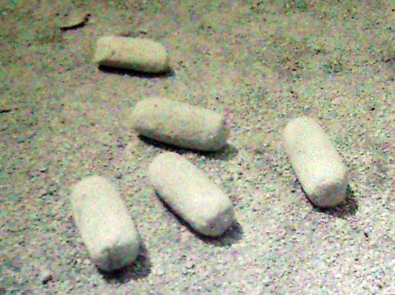 Group of carved rolling stones used for the game Chana a morrillo, a rural sport of the province of Palencia (Castile and León).